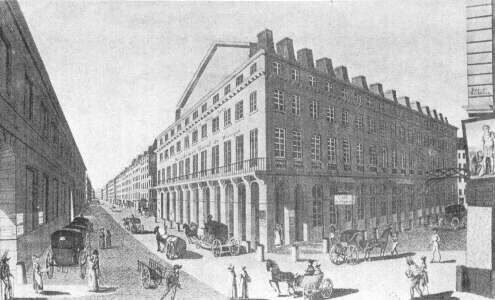 Drawing of the Théâtre de l'Opéra, principal venue of the Académie Royale de Musique from 1794-1820.